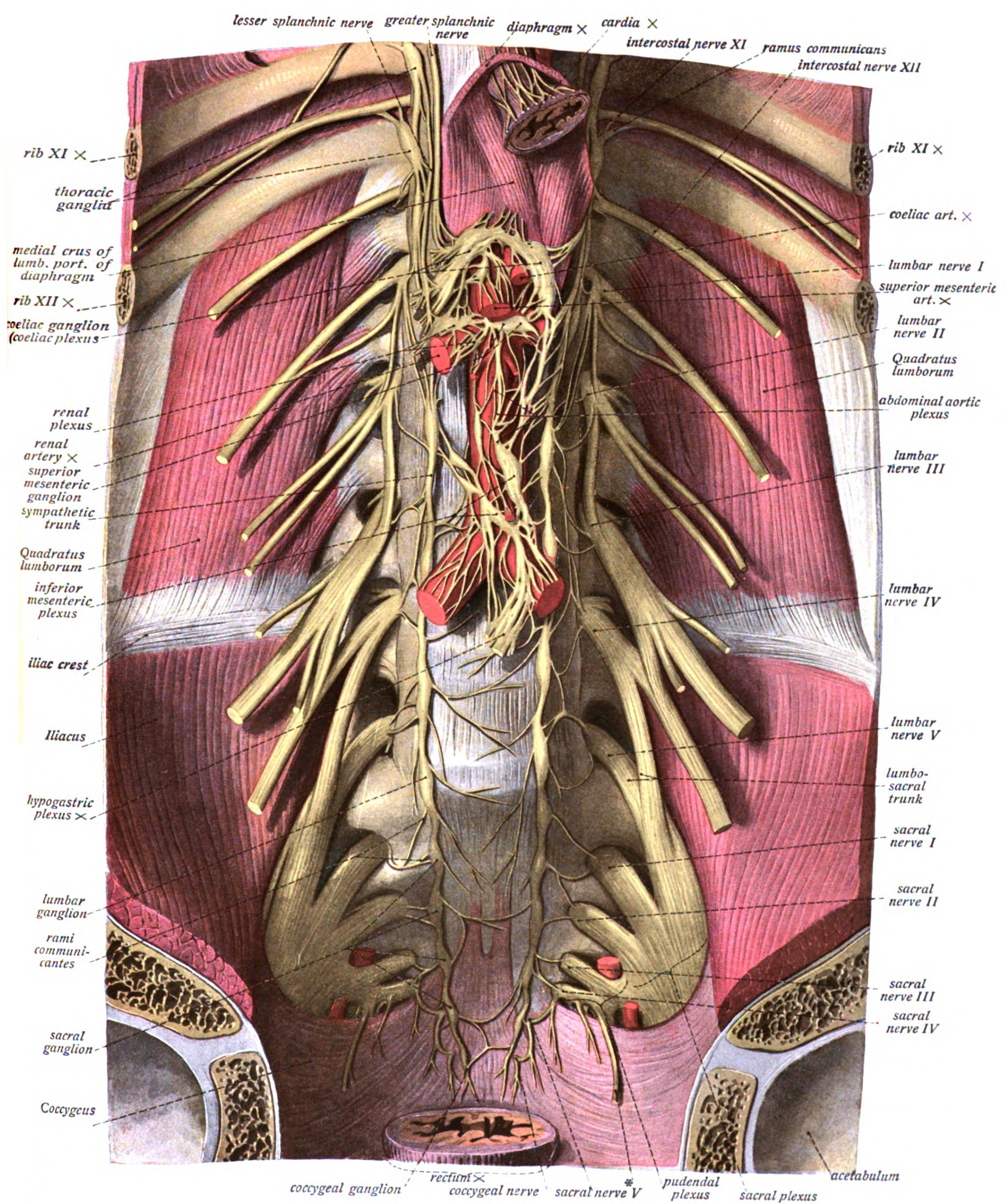 An anatomical illustration from Sobotta's Human Anatomy 1909